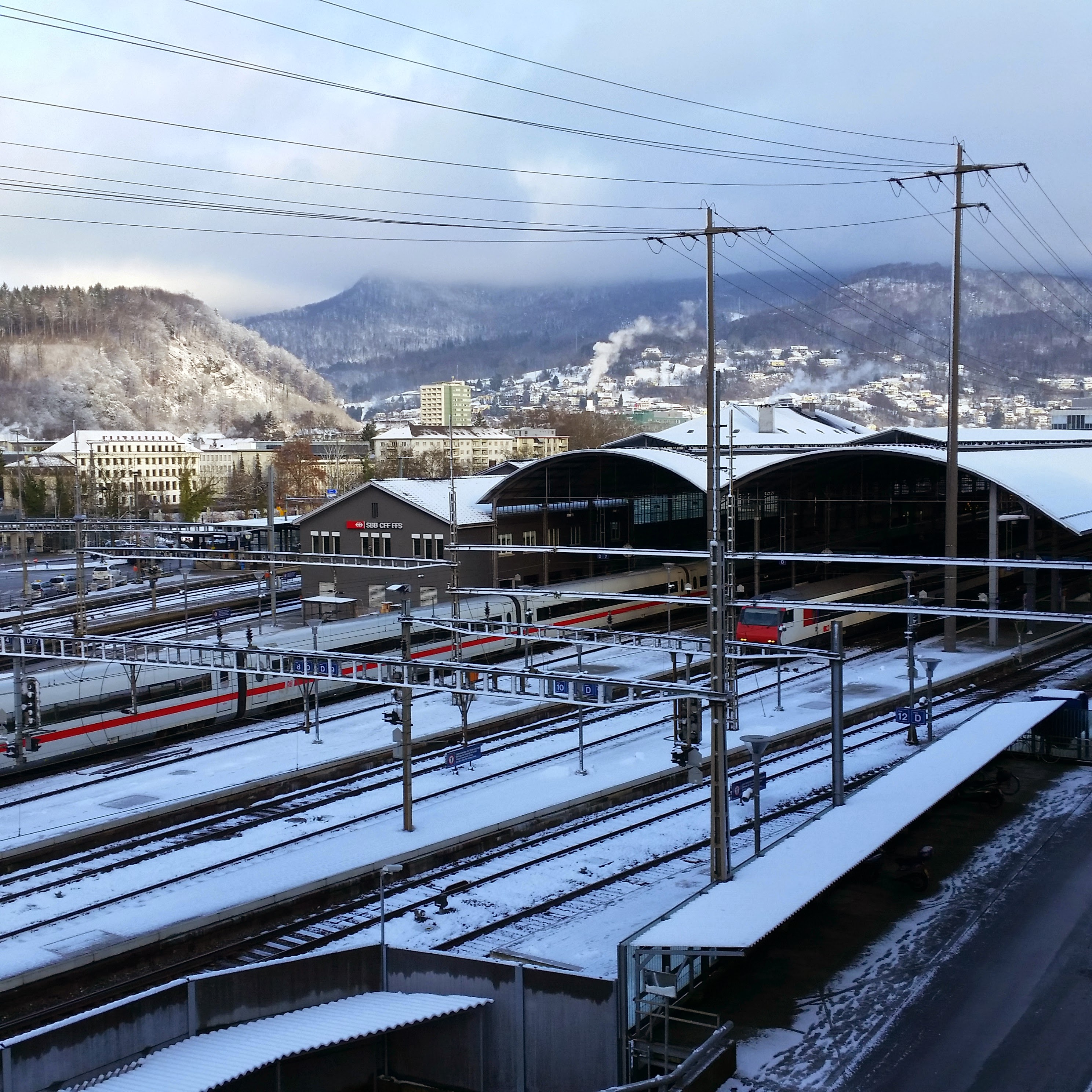 Railroad station of Olten seen from the south western corner. Track 12 is closest. In the background the Jura mountains can be seen.